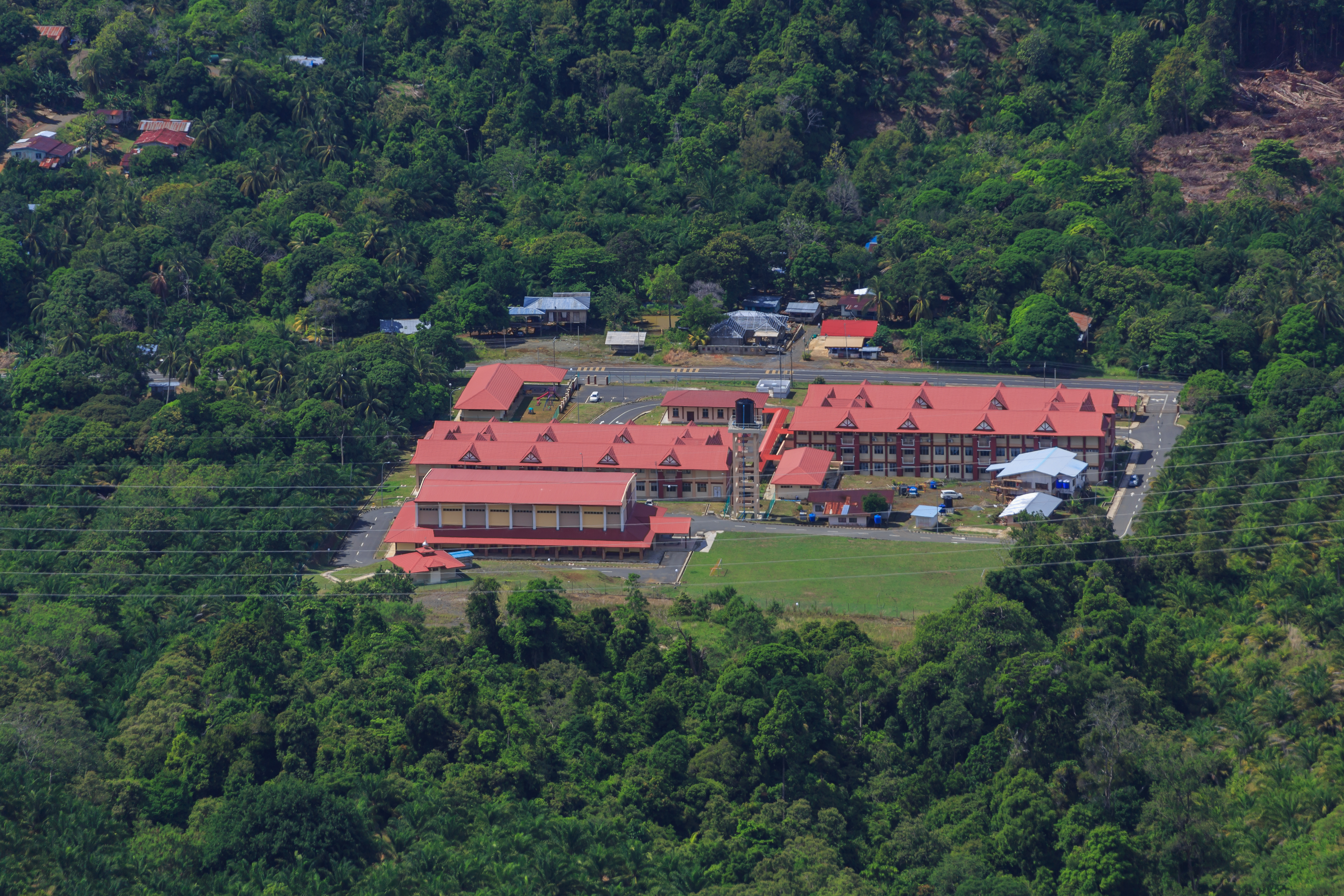 Silam, Lahad Datu, Sabah: Sekolah Kebangsaan Kampung Silam (SK Kg Silam), a primary school in Lahad Datu District